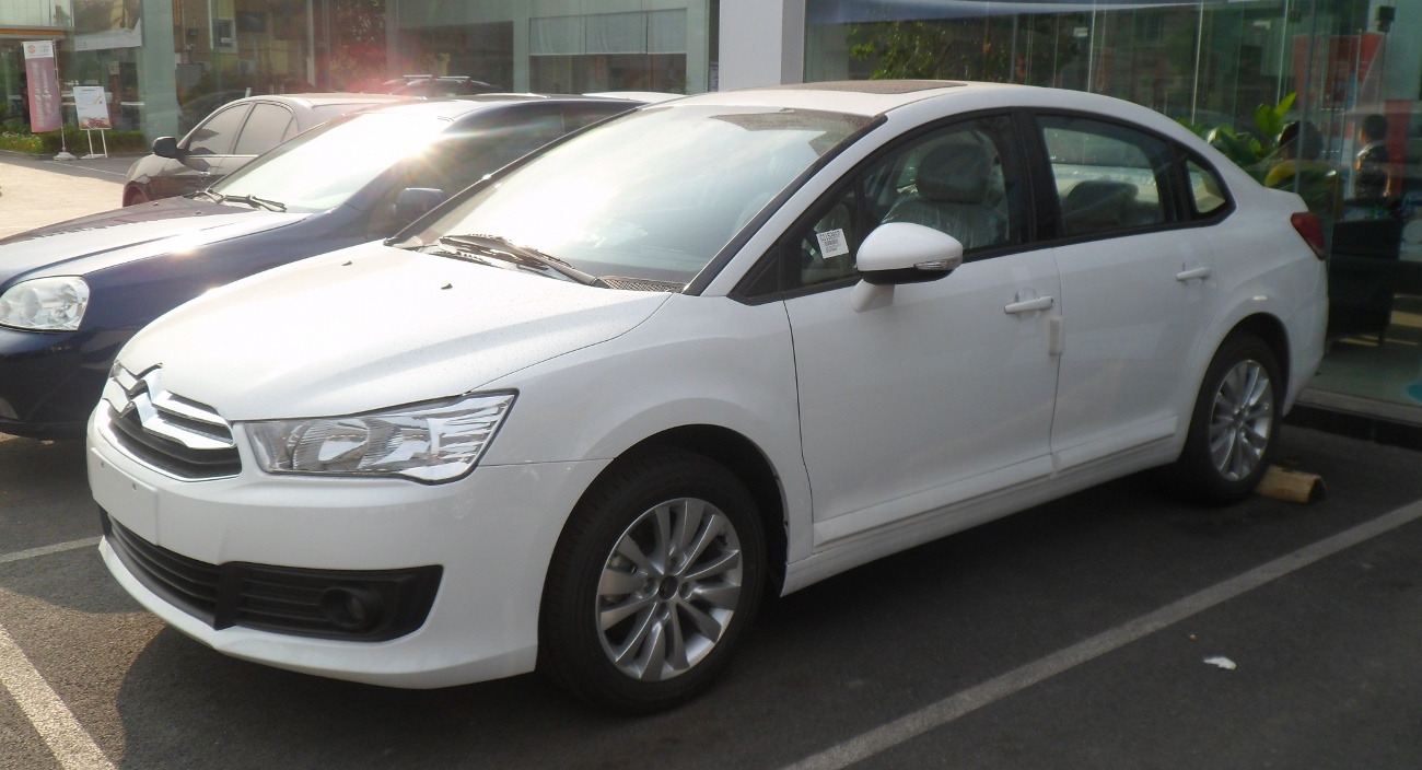 Citroën C-Quatre sedan facelift photographed in Shanghai, China.